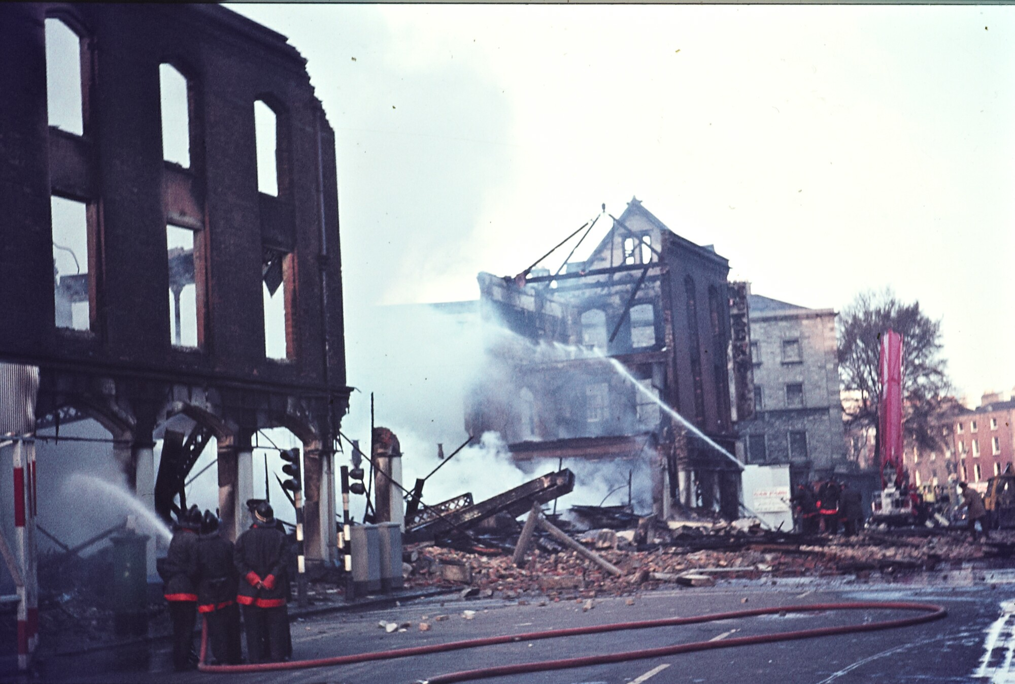 The aftermath of a huge fire at Thomas McKenzie & Sons Ltd. on Pearse Street, Dublin, luckily situated just opposite Tara Street Fire Station. This report is from the front page of the Irish Times on the following day, Friday 10 April 1970: "A serious congestion of traffic was experienced throughout the day in central Dublin yesterday following the fire which destroyed the entire three-storied hardware store of Thomas McKenzie and Sons, Ltd., at Pearse street shortly after 5 a.m. ... The blaze was the worst experienced by crews of Dublin Fire Brigade in five years, according to the city's chief fire officer, Mr. Thomas O'Brien. "It was the fastest spreading fire I have ever seen. In a matter of minutes the entire building was destroyed" ... More than 60 firemen drawn from the central fire station at Tara street—directly opposite the McKenzie building—and from stations at Buckingham street, Dorset street, Rathmines, Dolphin's Barn, Howth and Swords were called to the scene. Ten appliances were deployed at strategic points in the vicinity and in the hour of the greatest activity, 27 hoses were being trained, on the building and nearby premises. No-one was injured. A number of firemen had an anxious moment when the outer wall collapsed onto the roadway. The entire stock of the shop—one of the biggest ironmongery firms in the city—was lost. The estimated damage was put at £300,000 by the firm's managing director, Mr. Michael O'Keeffe." Date: Thursday, 9 April 1970 NLI Ref.: WALK32